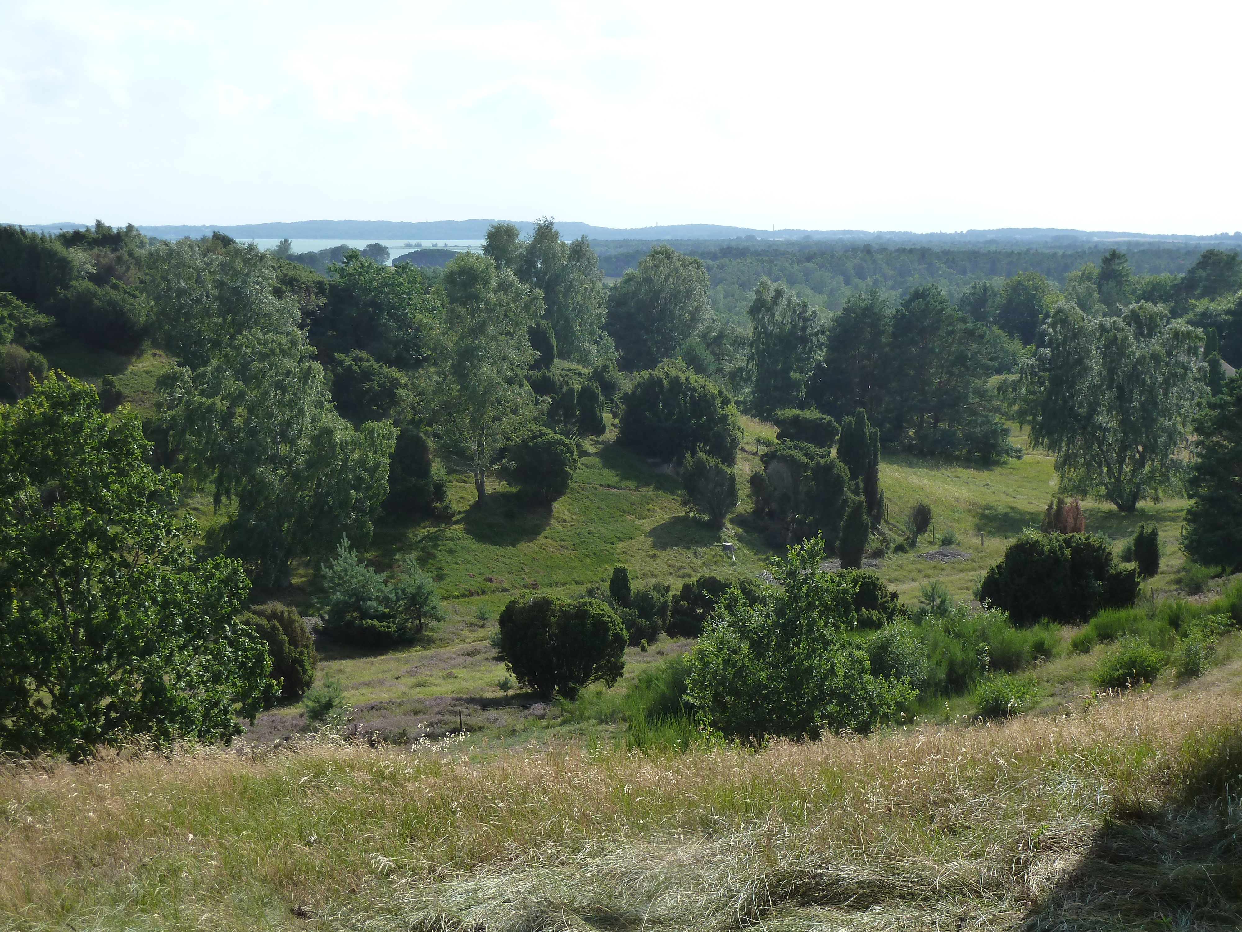 Tibirke Bakker at Tisvildeleje, Denmark